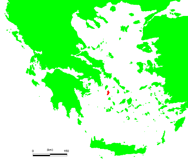 GR Kithnos.PNG (Greek island)